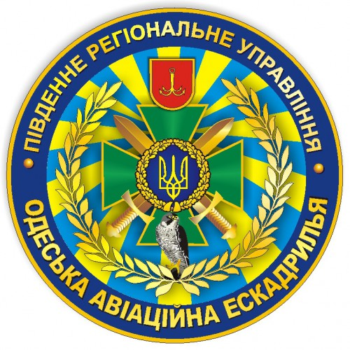 State Border Guard Service Patches of Ukraine